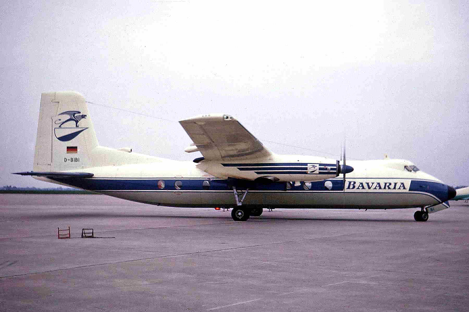 A picture of an airplane (name of it is on the file name).